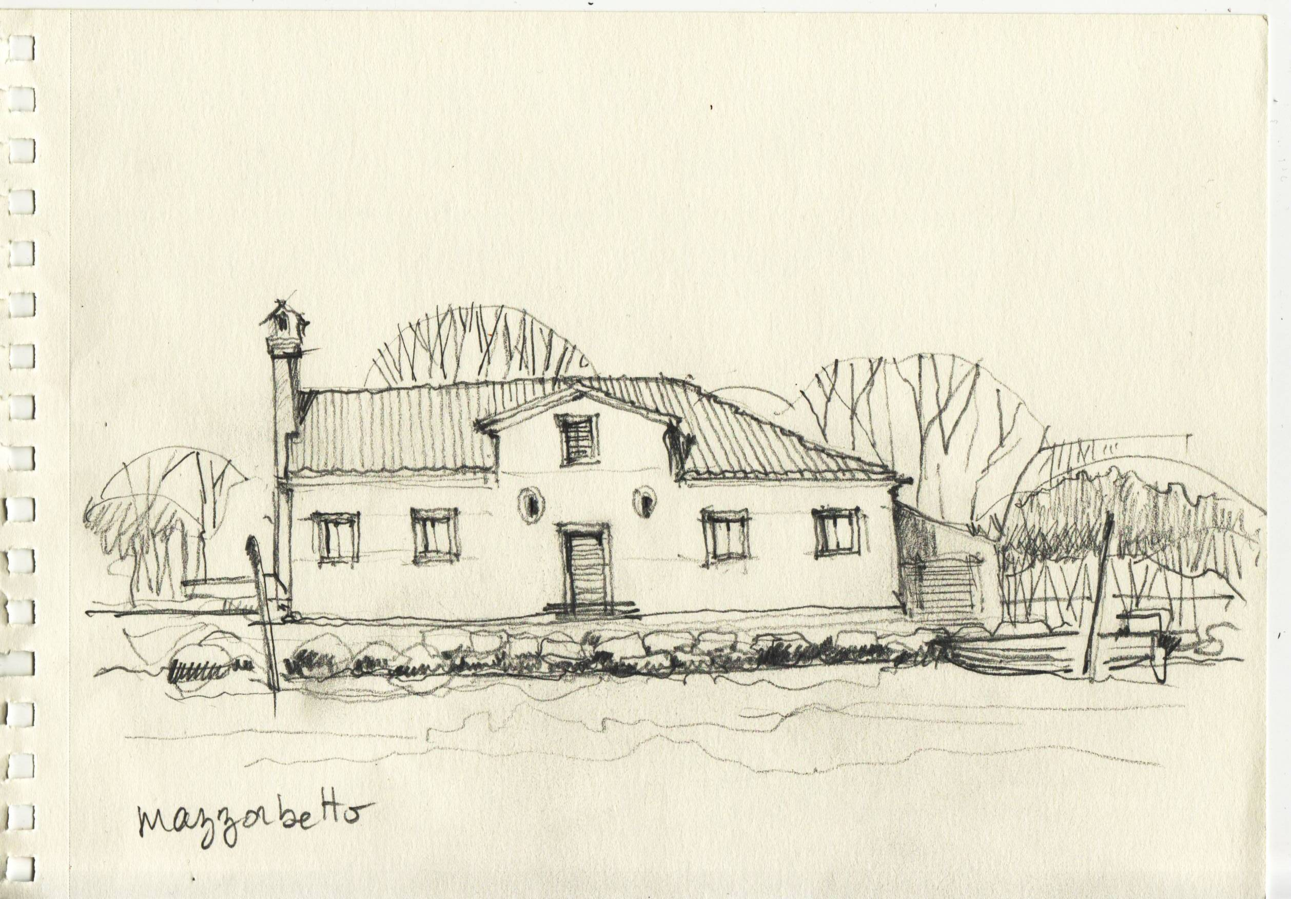 vaporetto between Burano et Murano